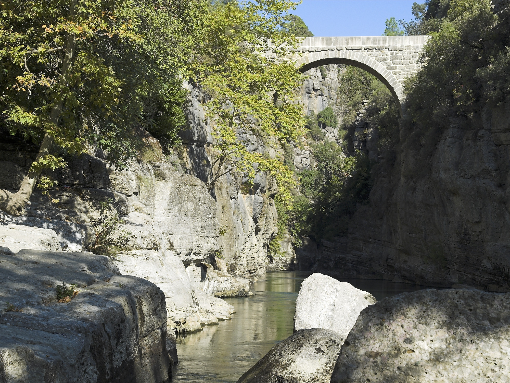 The Eurymedon Bridge (Oluk Köprü) near Selge, Pisidia, Turkey